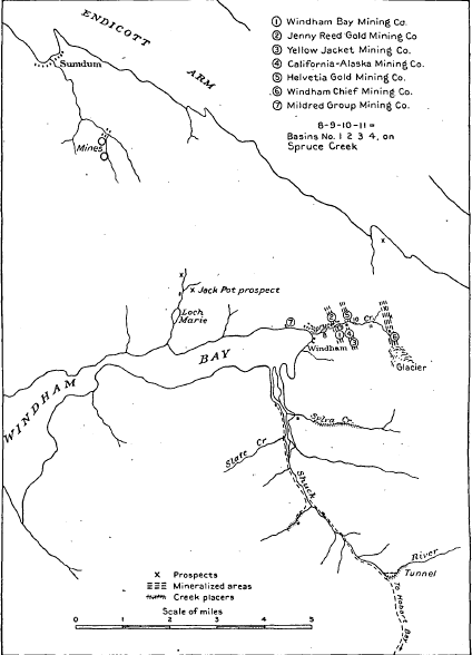 Windham Bay